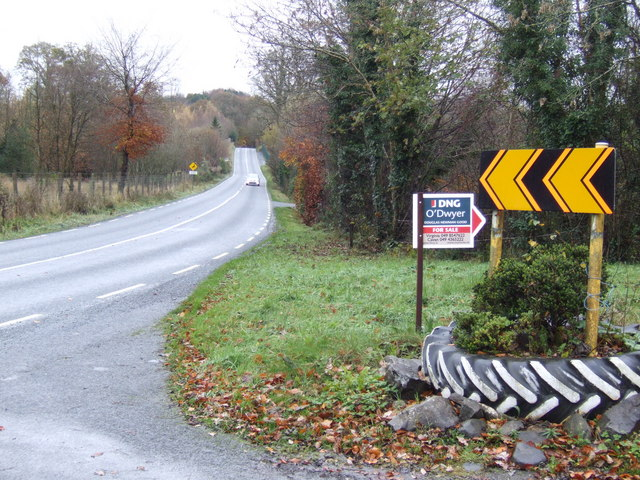 R188 road near Cootehill, Co. Cavan This scene is just in Co. Monaghan, north of the town.